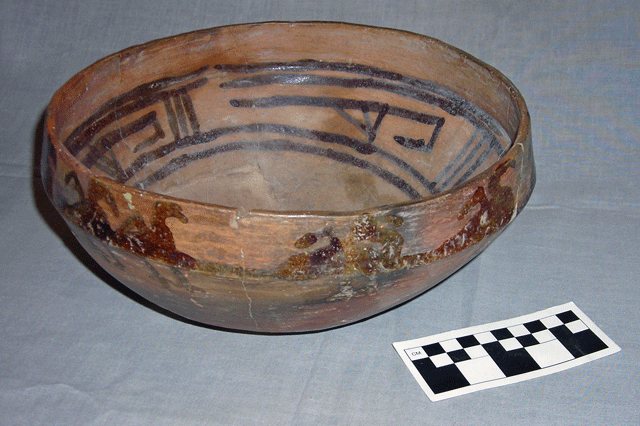 Kotyiti Glaze-on-red bowl. This bowl is actually intermediate on the continuum of glaze-on-red to glaze-on-yellow. From the collections of the Maxwell Museum, University of New Mexico. Small squares on scale are 1 by 1 cm.